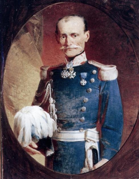 Kostas Botsaris (1792- 1853) - Greek Fighter of the 1821 Revolution. Brother of Markos Botsaris. Κώστας Κίτσου Μπότσαρης